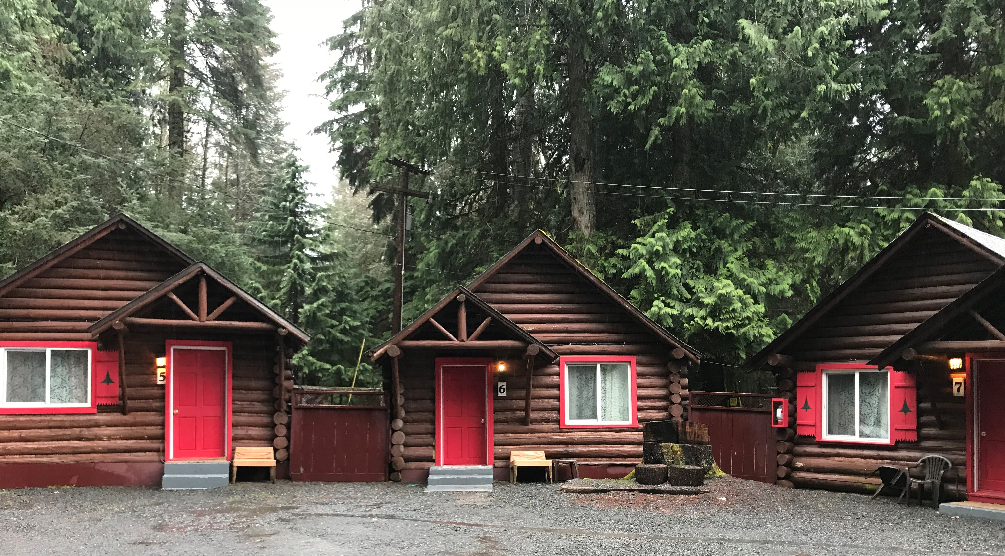 Motel units, resembling traditional log construction, at the Gateway Inn near Mt. Rainier National Park